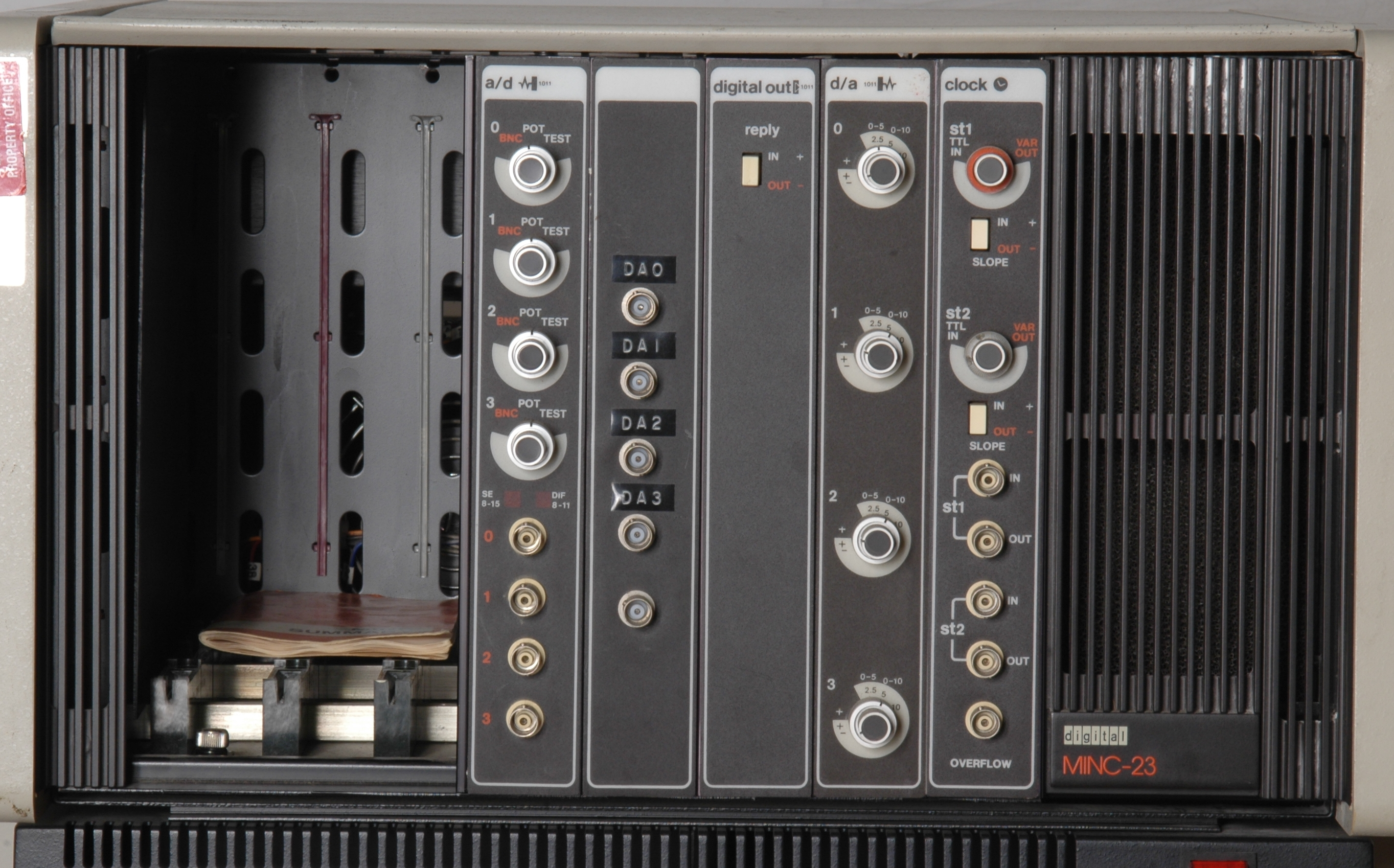 DEC MINC-23 laboratory computer. From the collection of the RCS/RI.